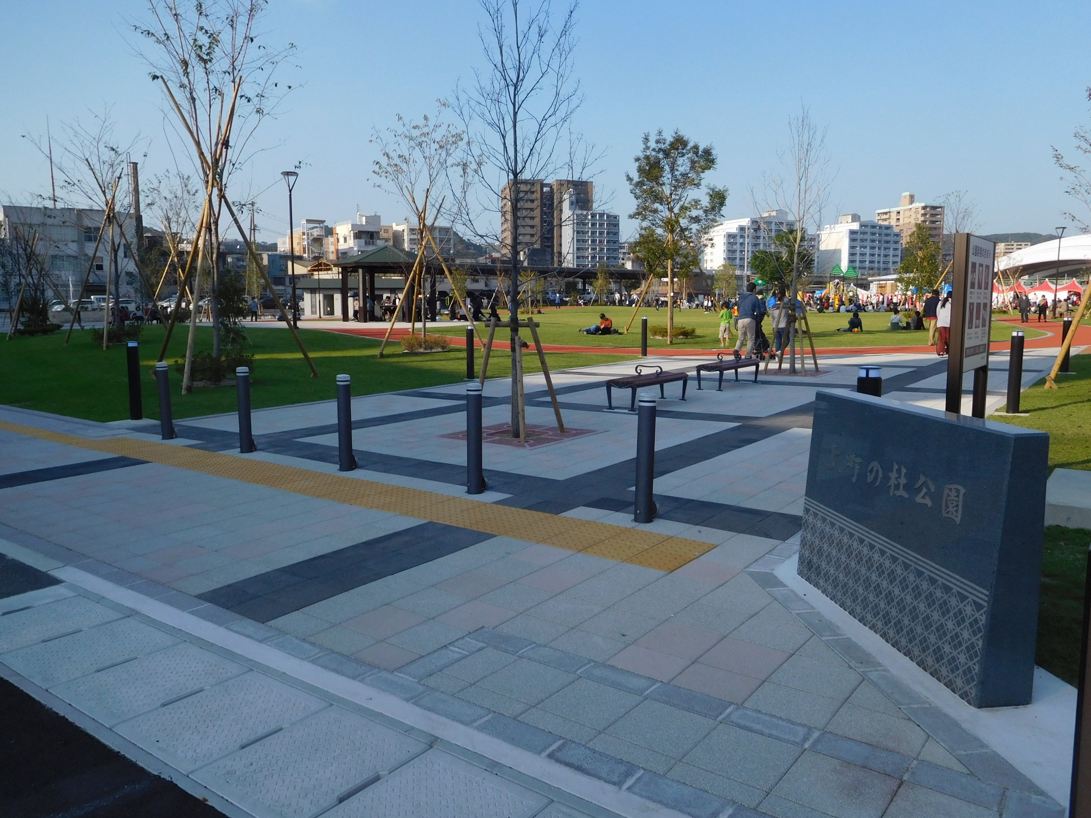 Kanmachi no mori Park, also known as "Kanmacheer"(Kagoshima City, Japan)